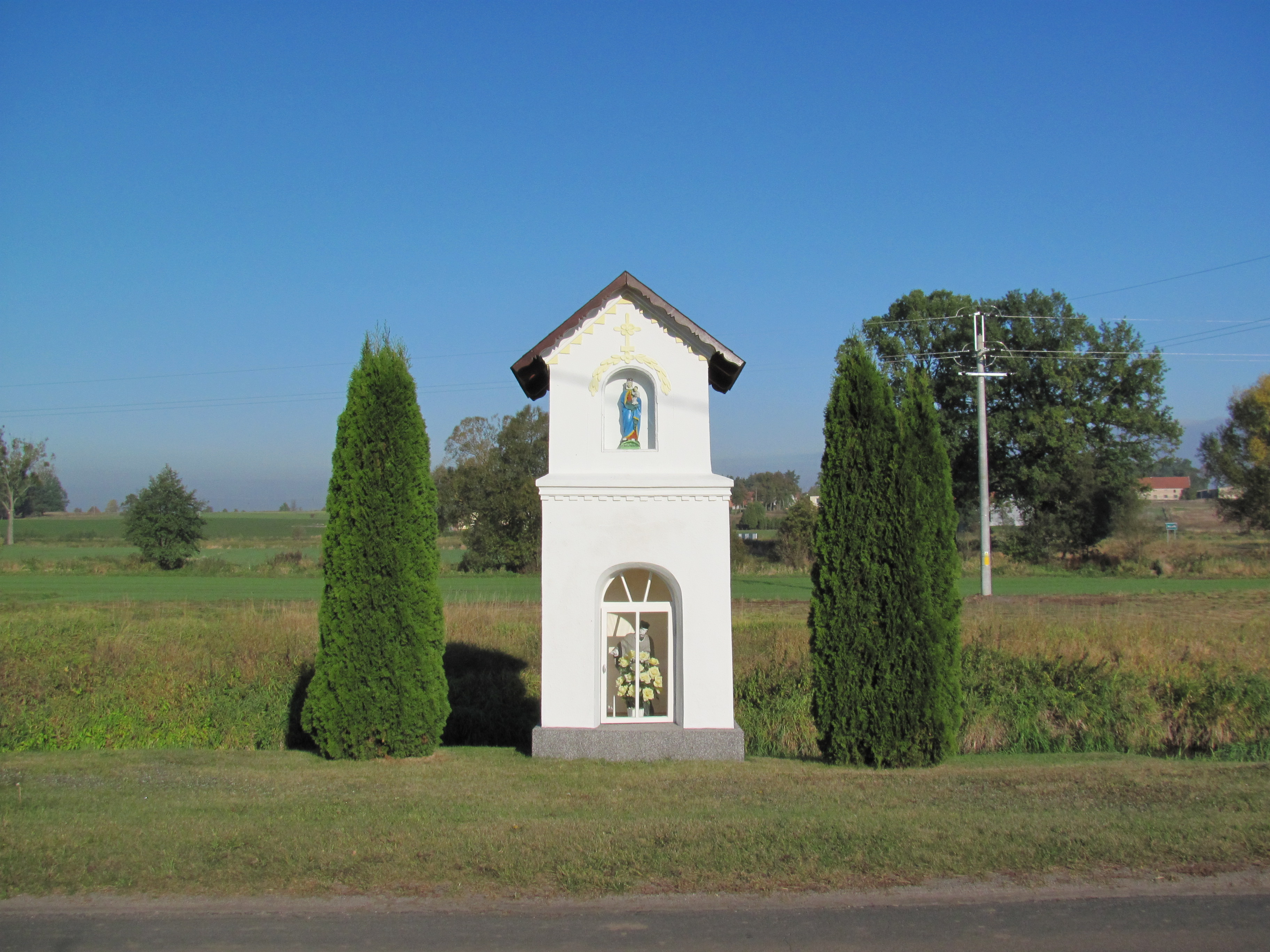 John of Nepomuk shrine in Wierzchy